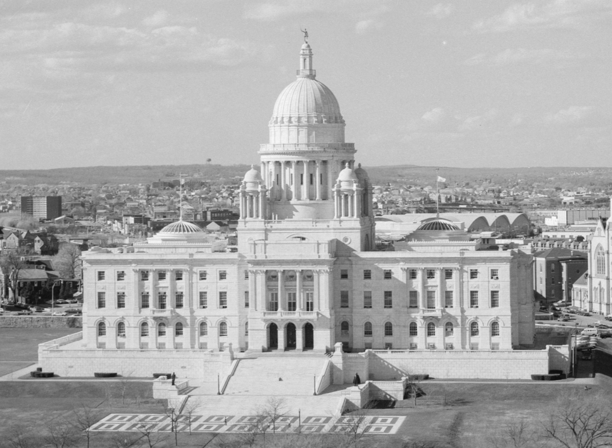 Aerial view of south elevation and grounds - Rhode Island State House, 90 Smith Street, Providence, Providence County, Rhode Island. (